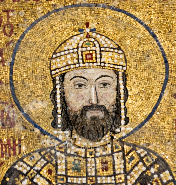 This is an image of the Byzantine emperor John II Komnenos (reigned 1118-1143). It is a photograph of a mosaic in Hagia Sophia (Istanbul), the image has been digitally altered to restore the facial features lost to damage on the original (to the best of my abilities). This is a cropped version of an existing image I created, with a small amount of reworking.